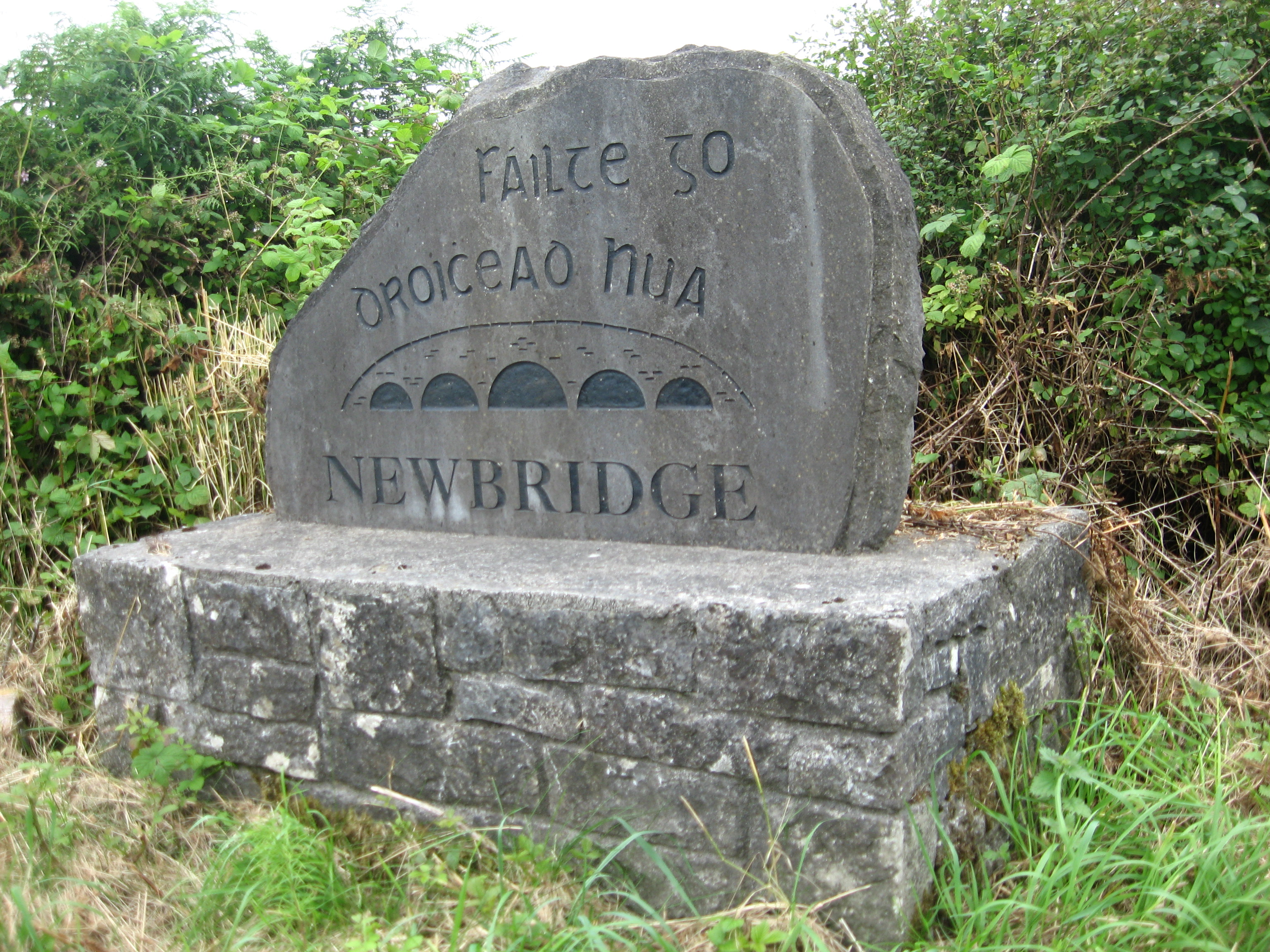 Stone marker on 63 as you enter Newbridge, County Galway, Ireland